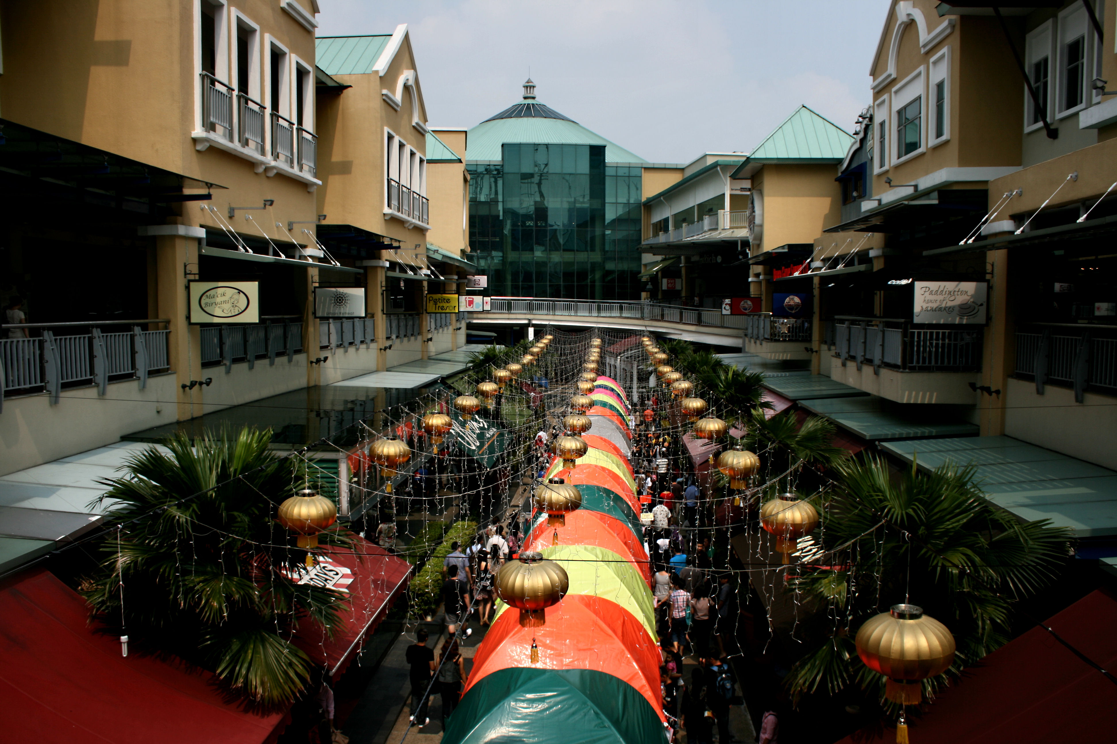 Outside The Curve